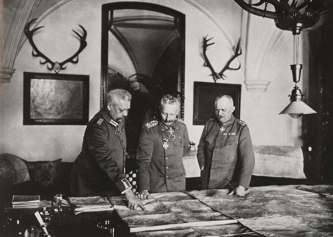 German General Headquarters, General Paul von Hindenburg, Kaiser Wilhelm II, General Erich Ludendorff.